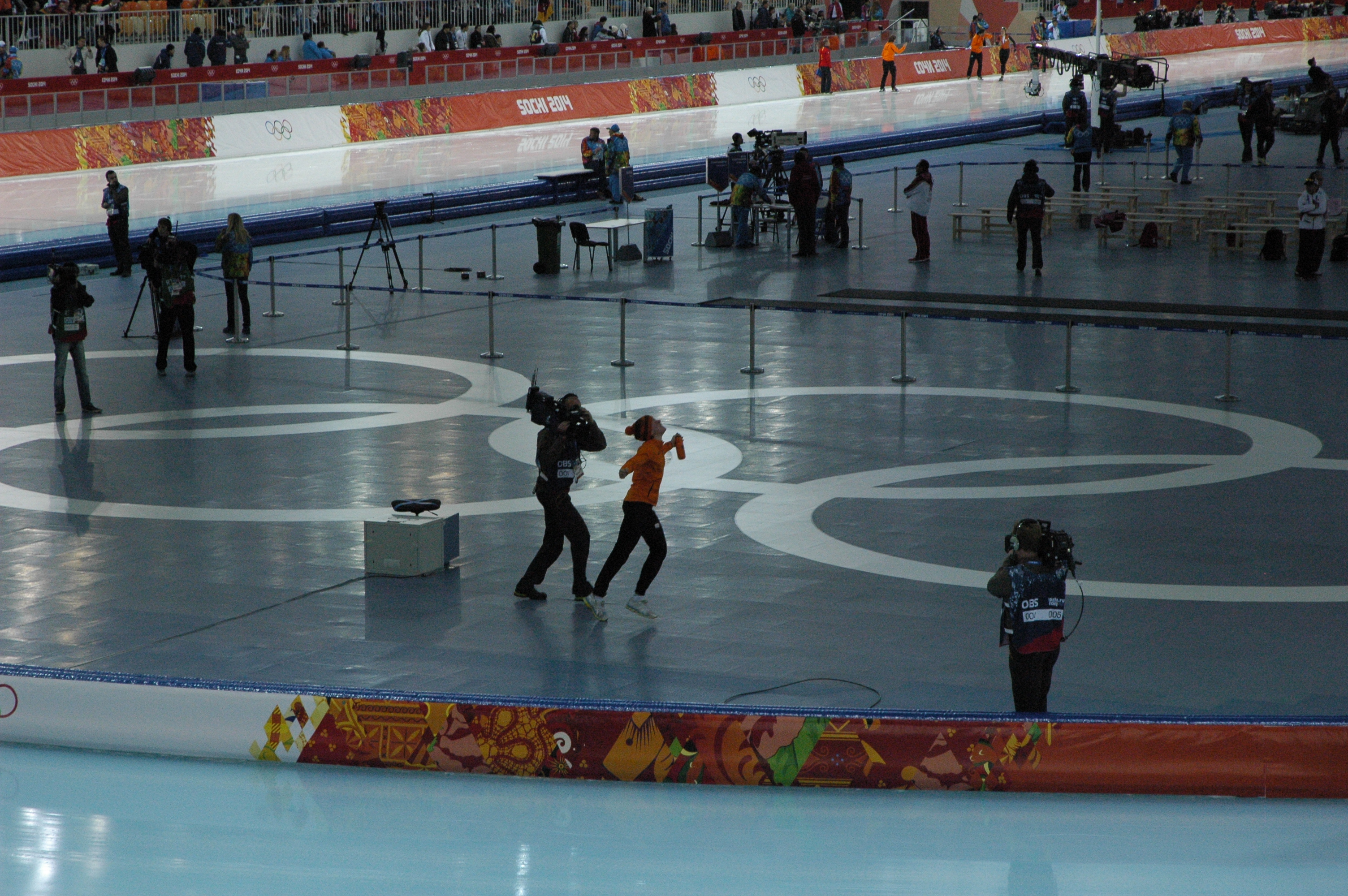 Women's 1500m, 2014 Winter Olympics, Jorien ter Mors after winning gold